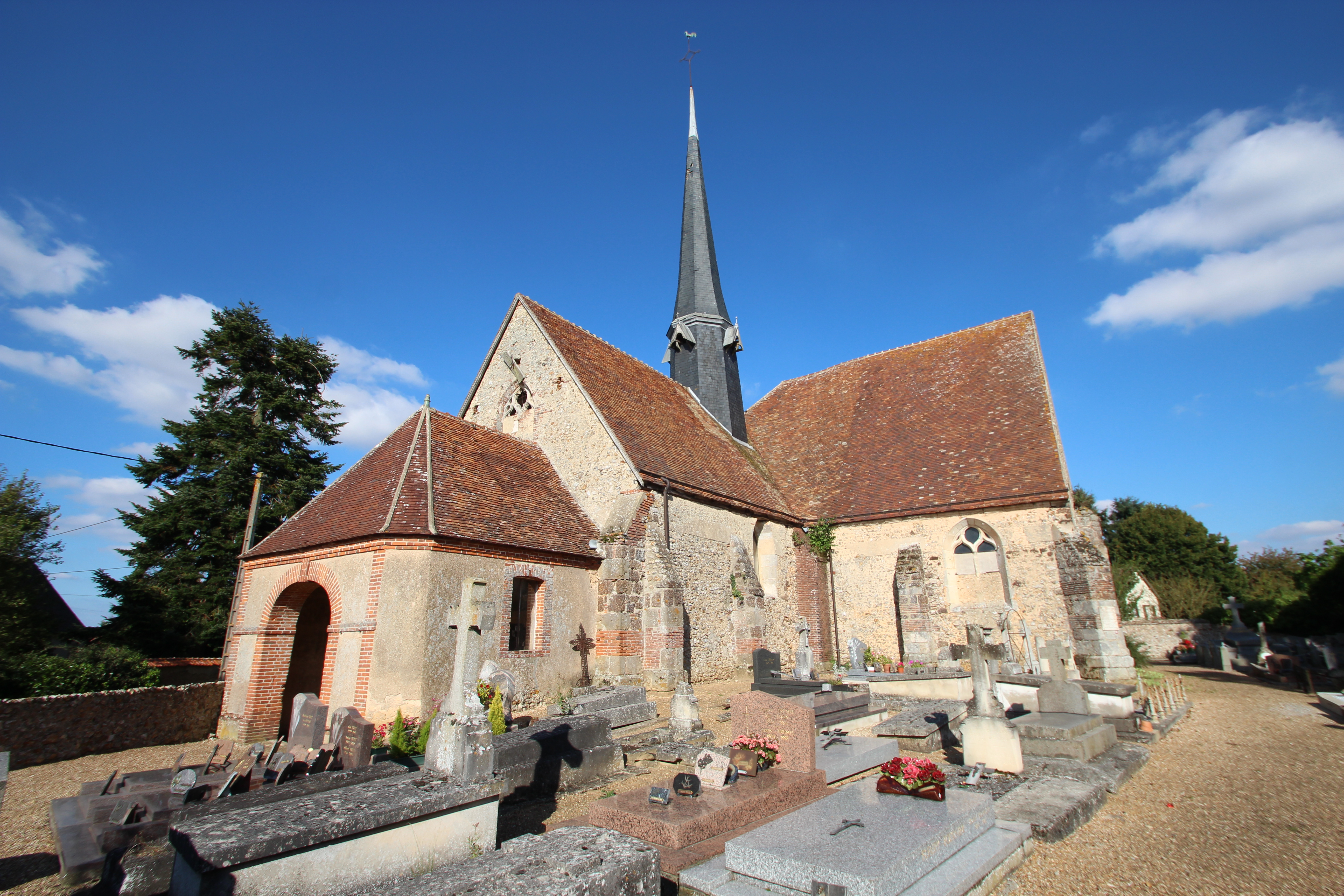 Saint-Sauveur church in Saint-Sauveur-Marville, France. . Object location48° 35′ 44.51″ N, 1° 16′ 55.41″ E